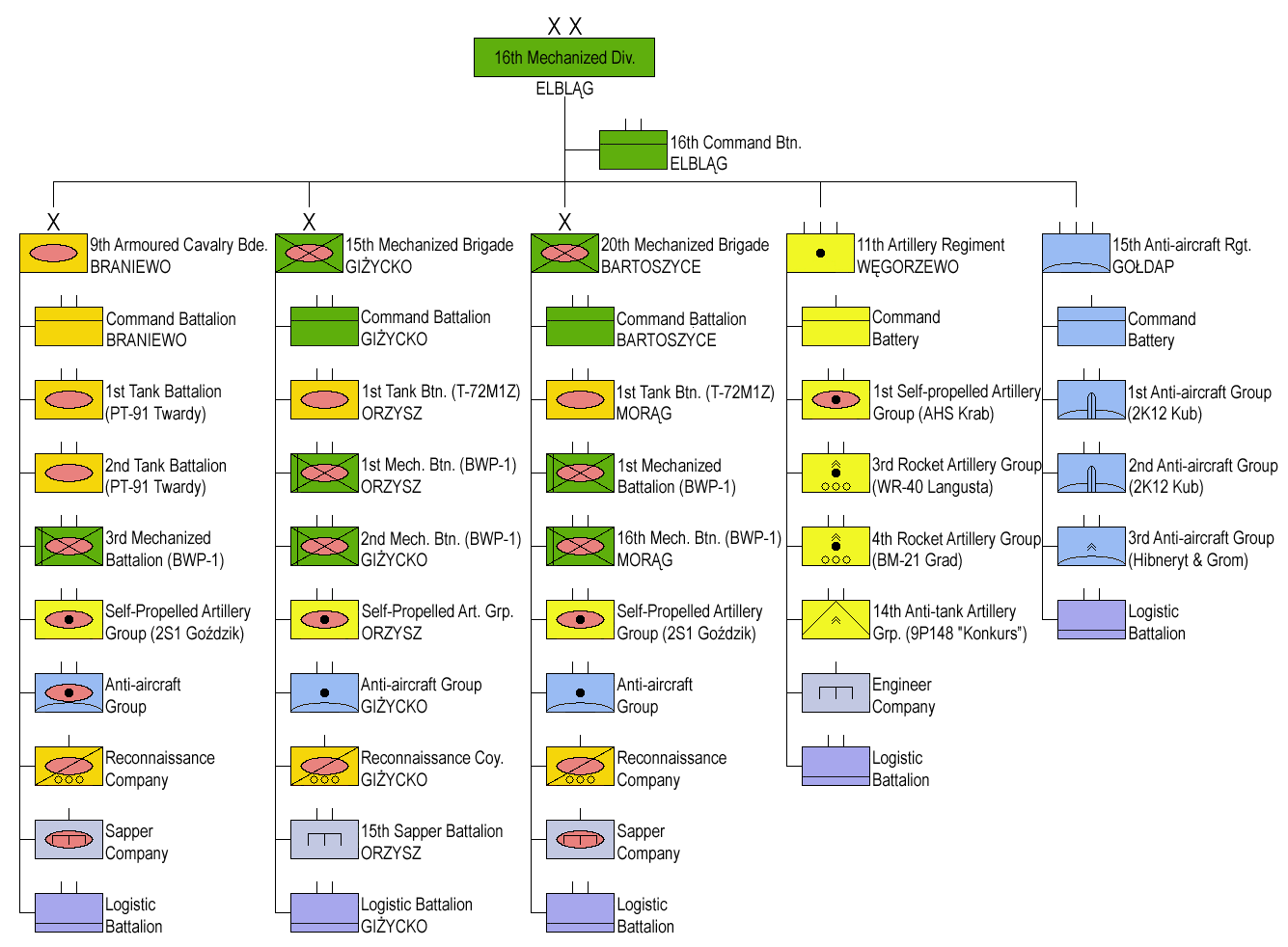 Structure of the Polish Army's 16th Mechanized Division